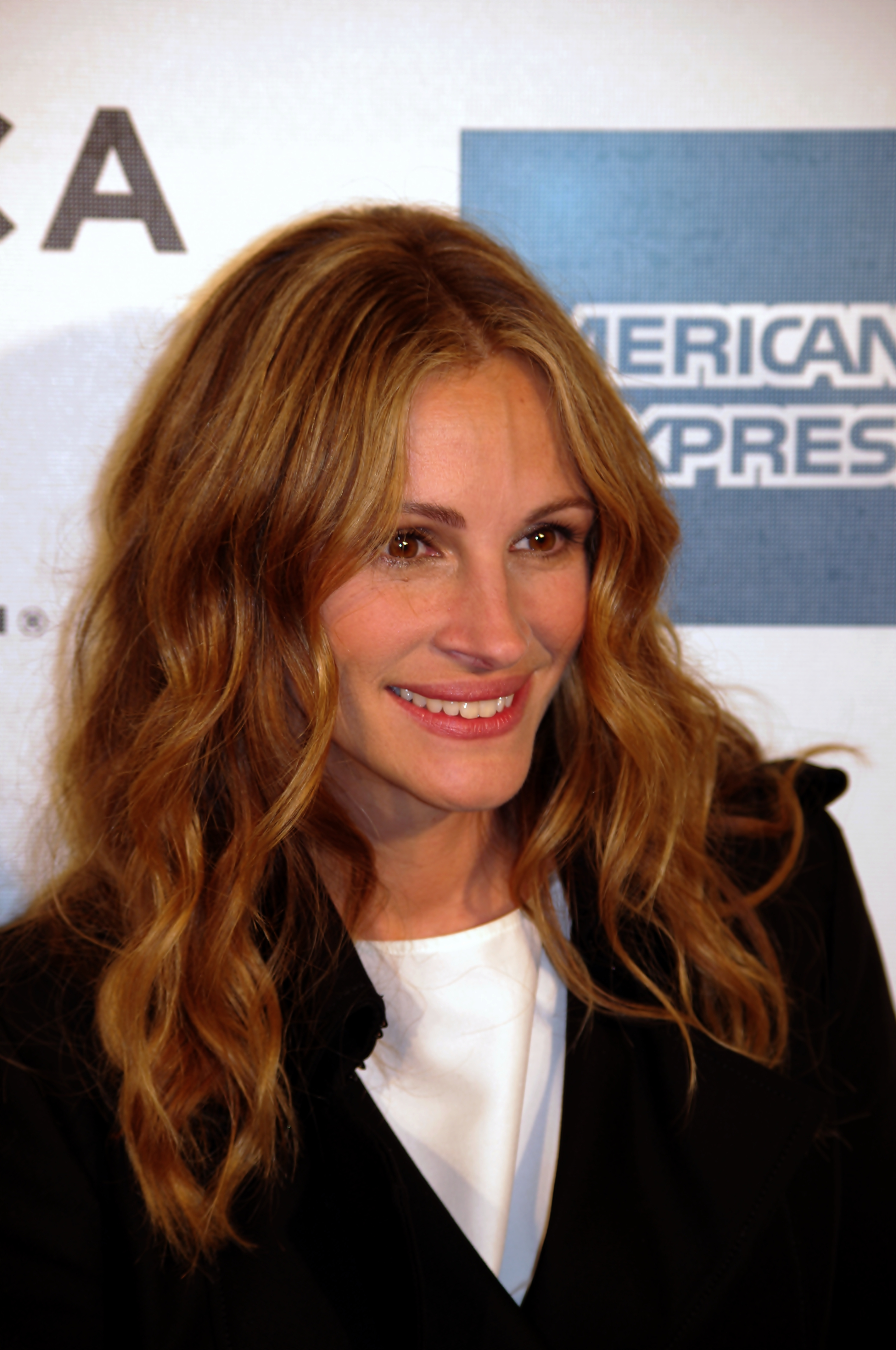 Julia Roberts attending the premiere of Jesus Henry Christ at the 2011 Tribeca Film Festival.